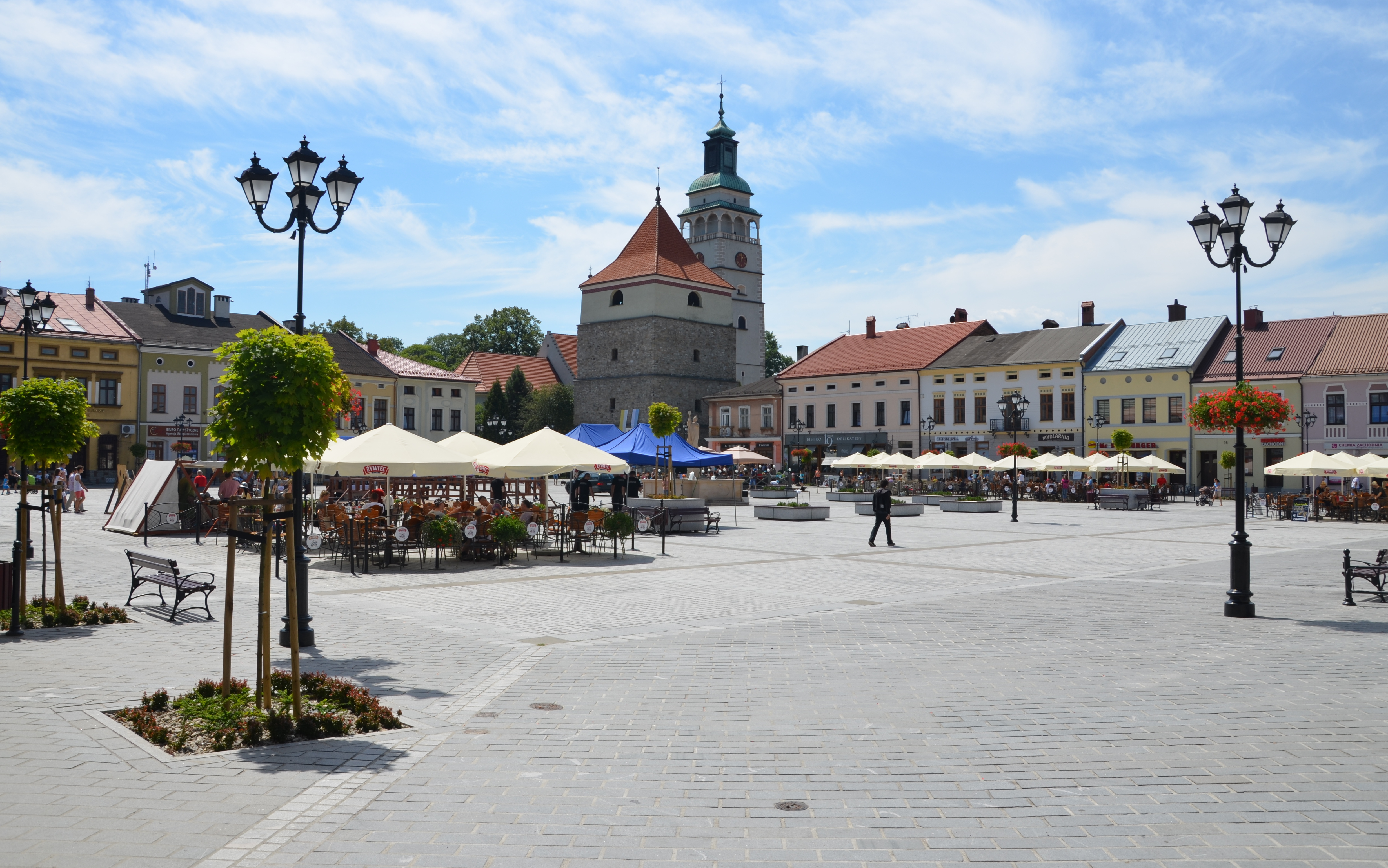 Die Häuser der Kaufleute auf dem Ringplatz von Saybusch